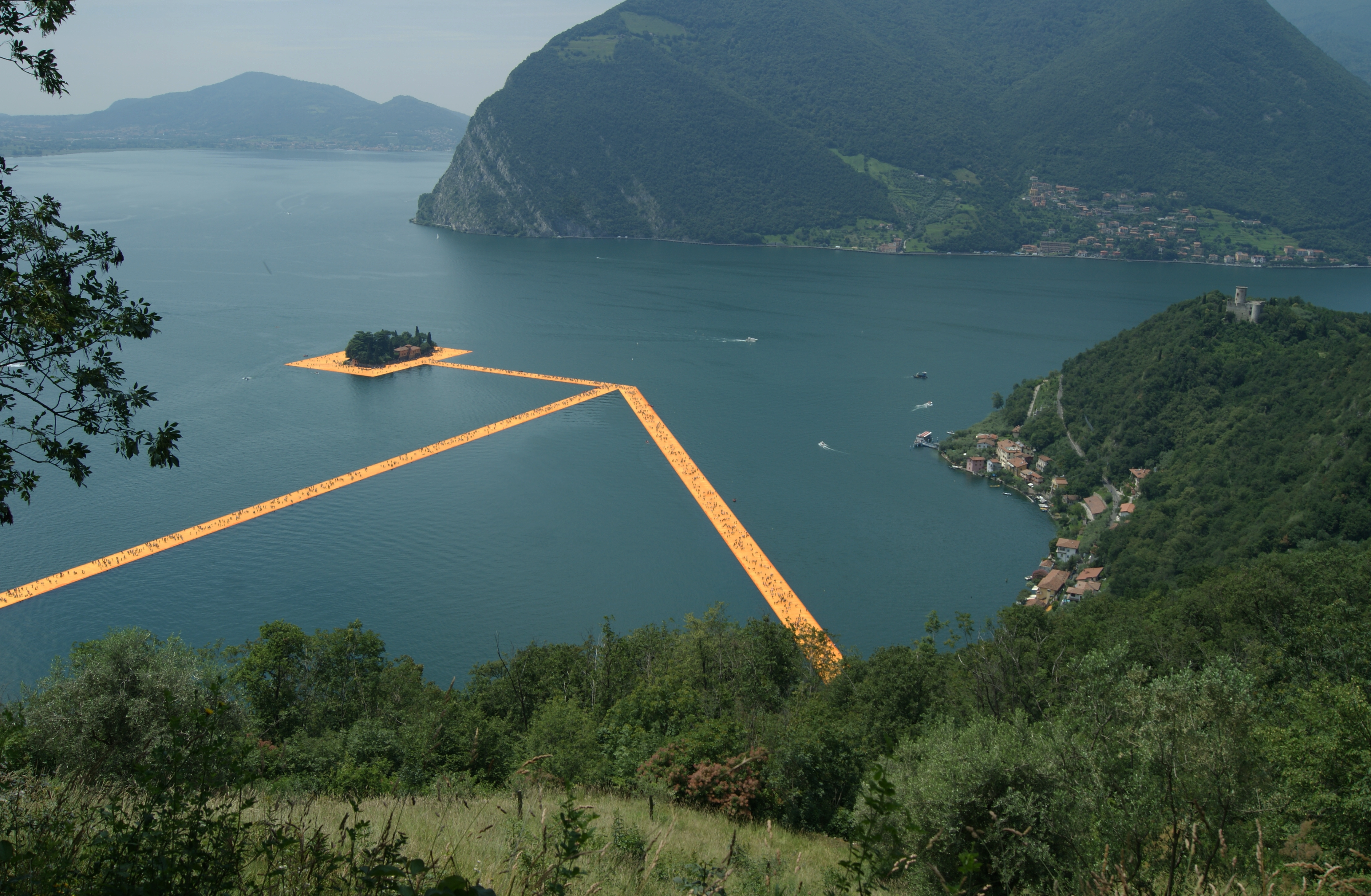 Isola di San Paolo: Part of The Floating Piers installation seen from the top of Monte Isola (Suantuario Madonna della Ceriola)